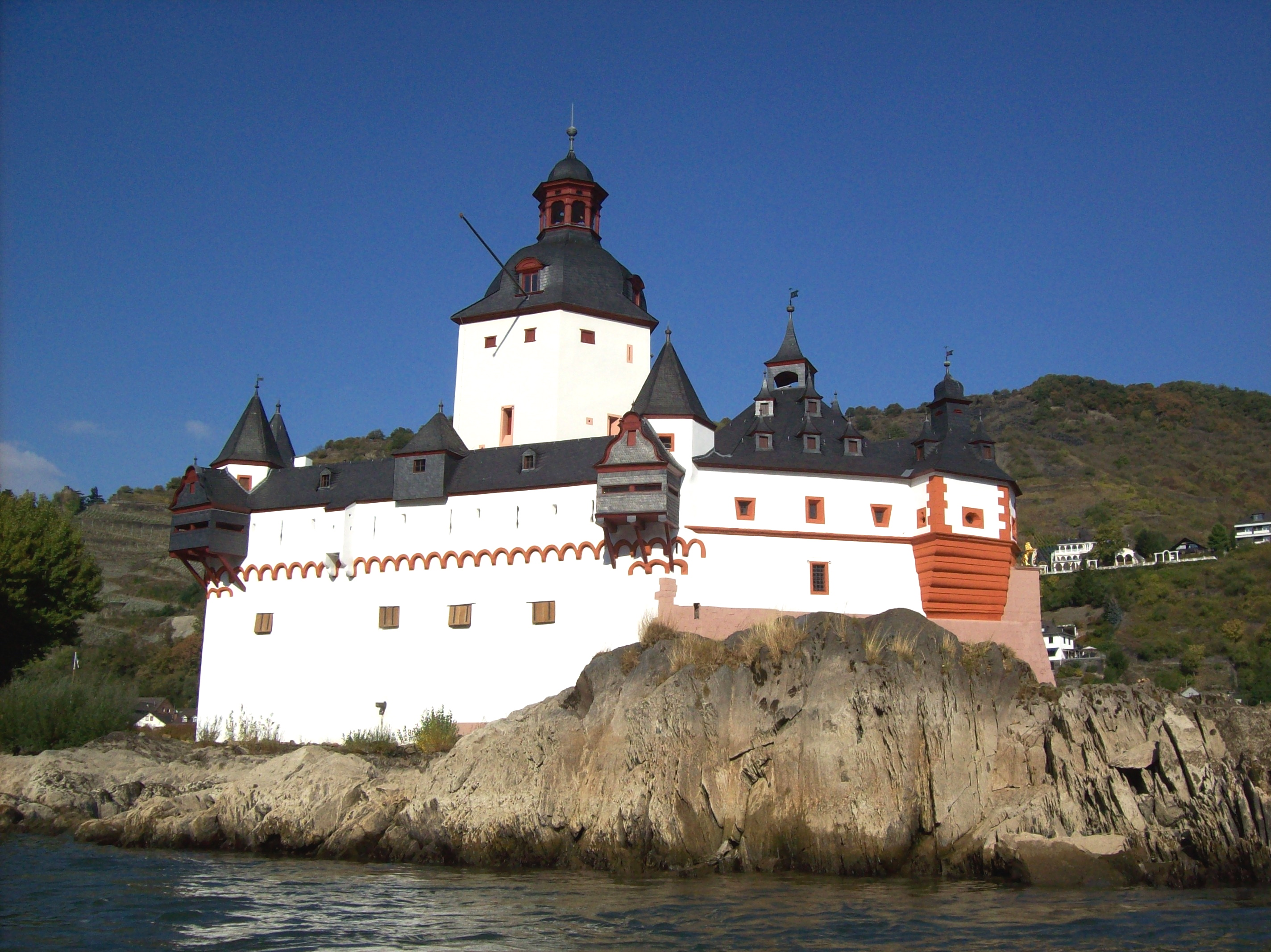 Burg Pfalzgrafenstein bei Niederwasser (Pegel 72 cm)